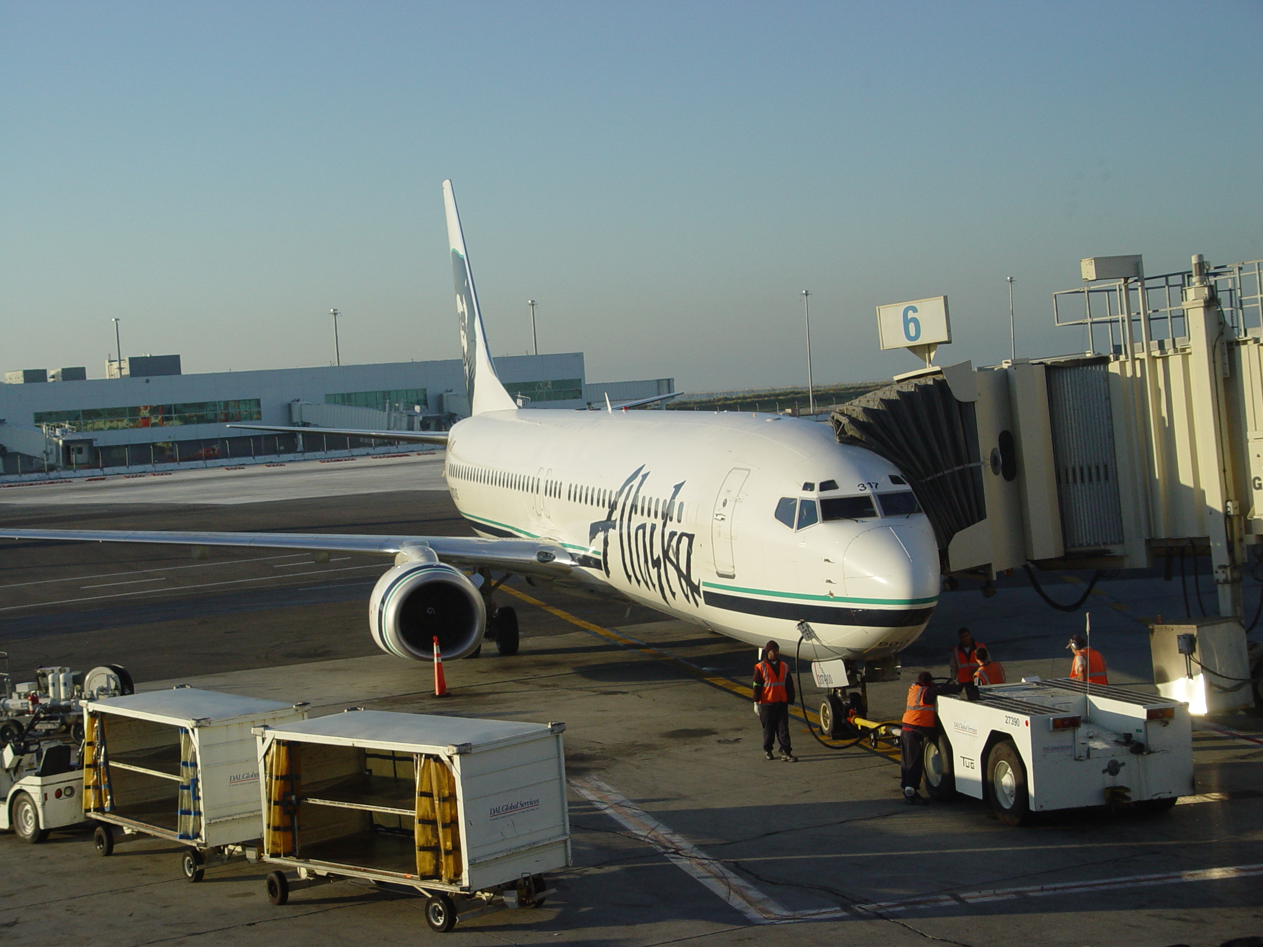 An Alaska Airlines Boeing 737-900 at Oakland International Airport (OAK).